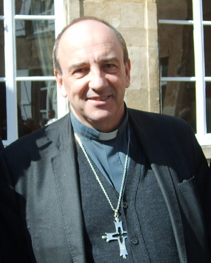 Jospeh de Metz-Noblat, a few hour prior his instatement as the Bishop of Langres